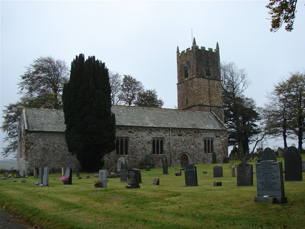 St Leonard's parish church, Clawton, Devon, seen from the northeast